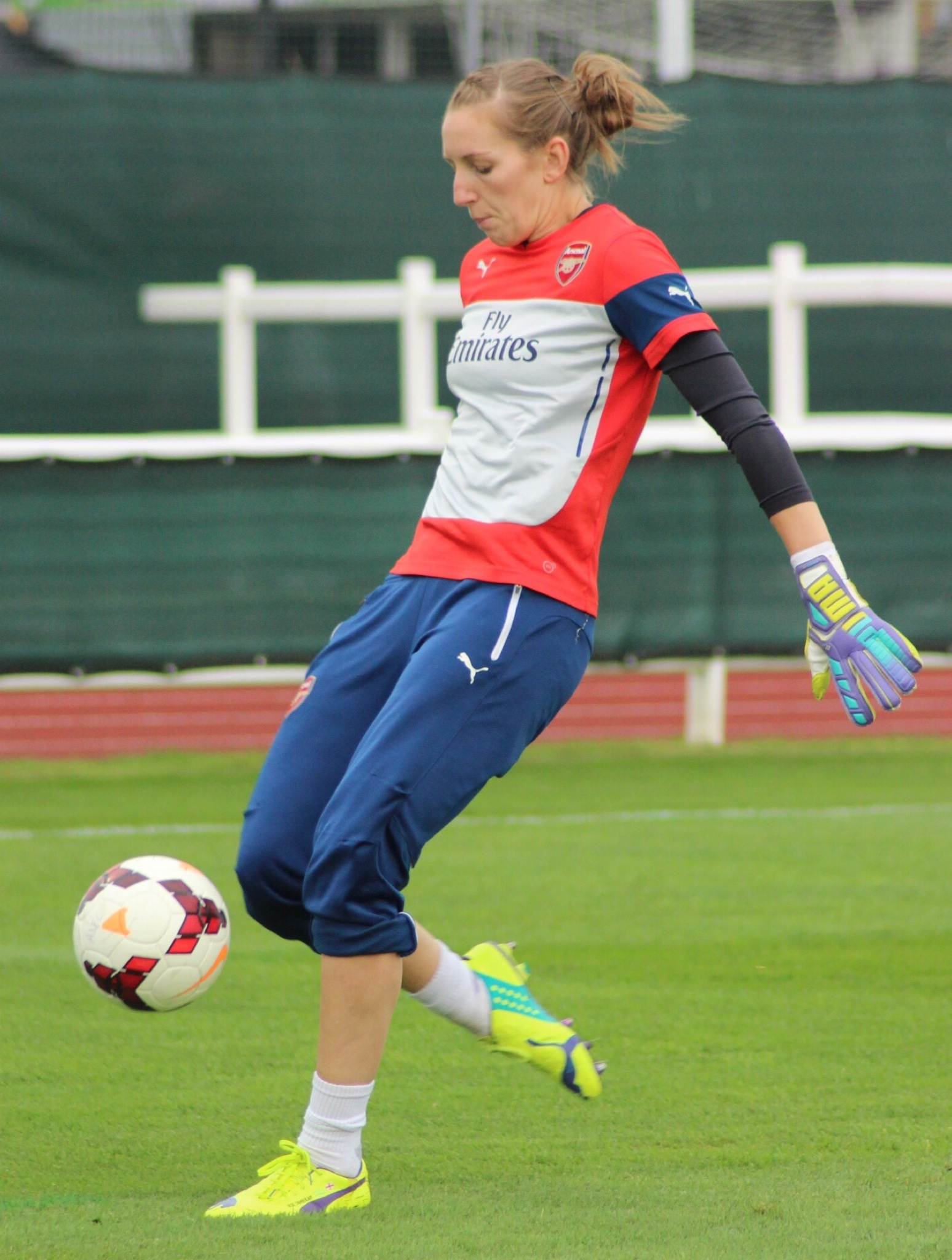 Siobhan Chamberlain of Arsenal Ladies warms up ahead of kick off